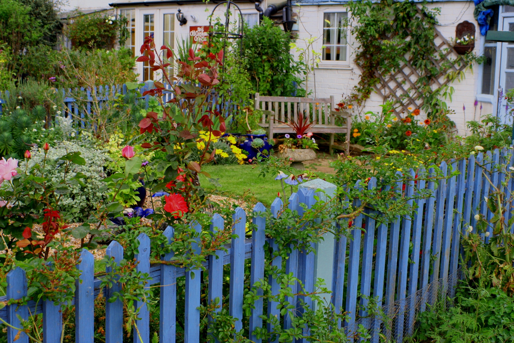 "Seaside garden". Front garden of one of the coastguard cottages, Pett Levels, backing onto Winchelsea beach. Sussex, UK.